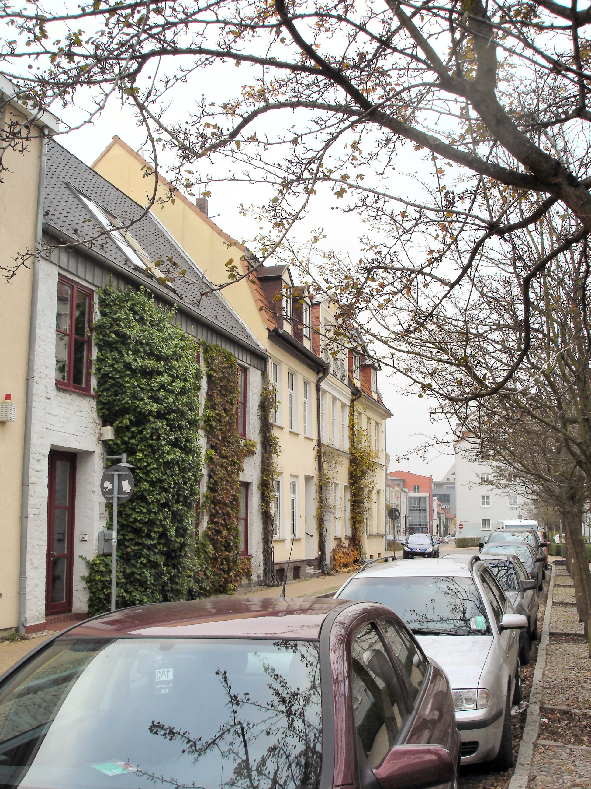 Street in the historic city of Rostock